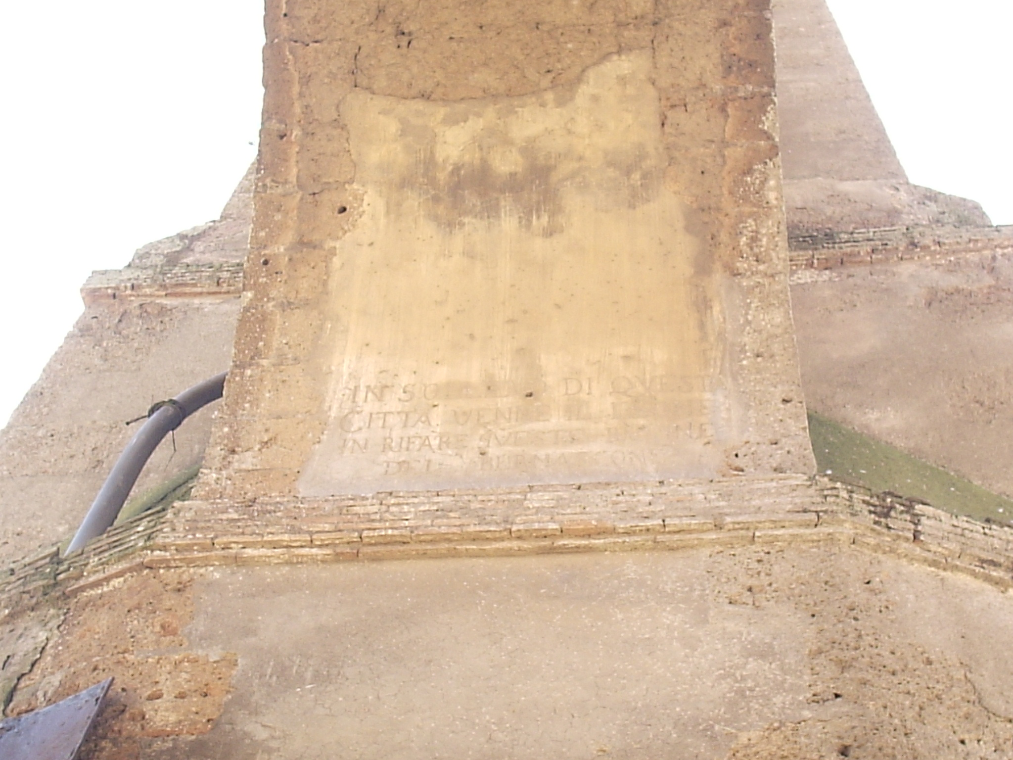 Detail of the acqueduct of Nepi